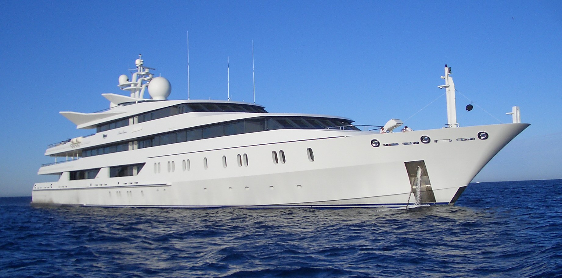 Indian Empress at sea